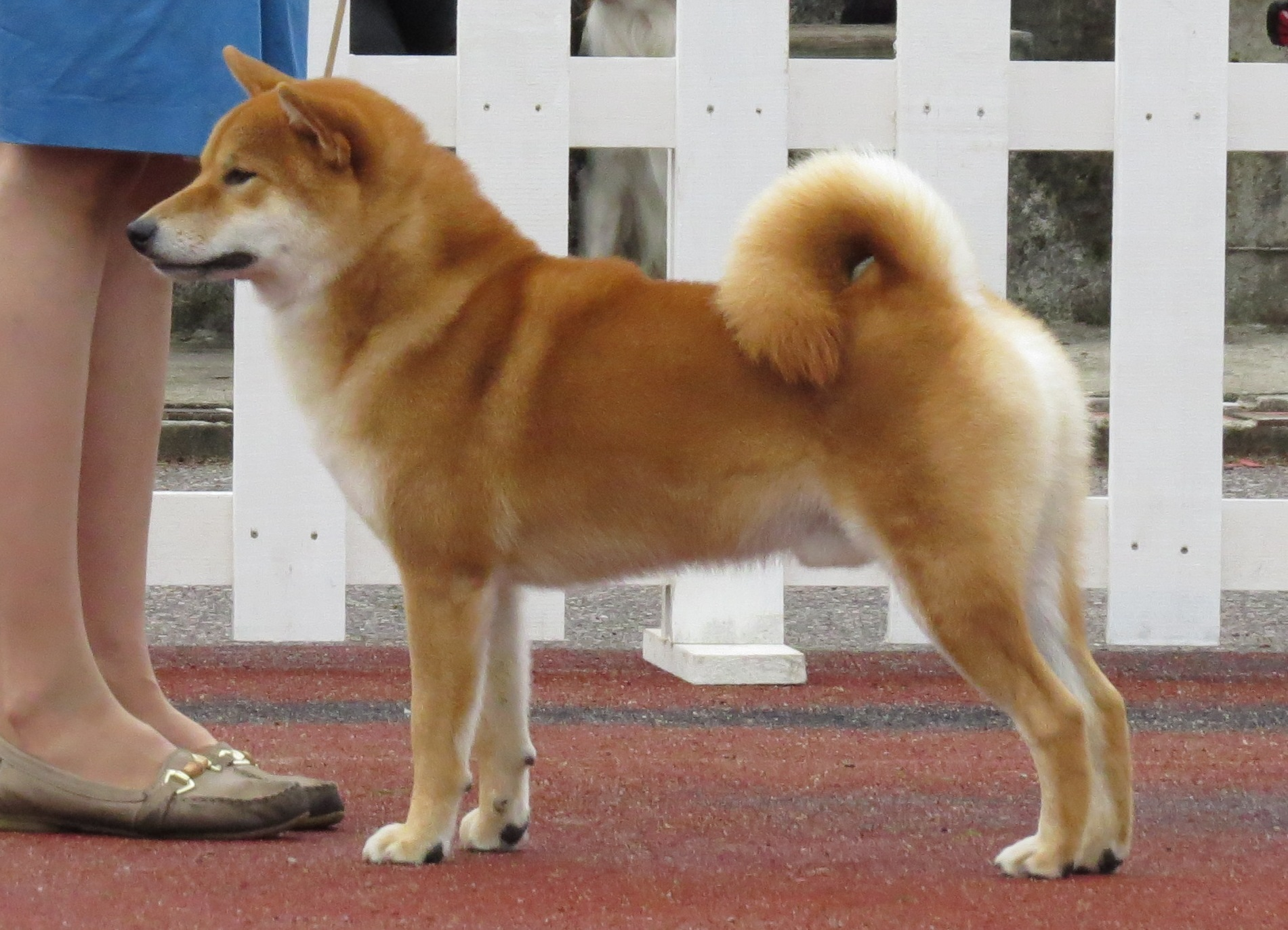 Shiba in Tallinn, duo CACIB, 17-18 Aug 2013